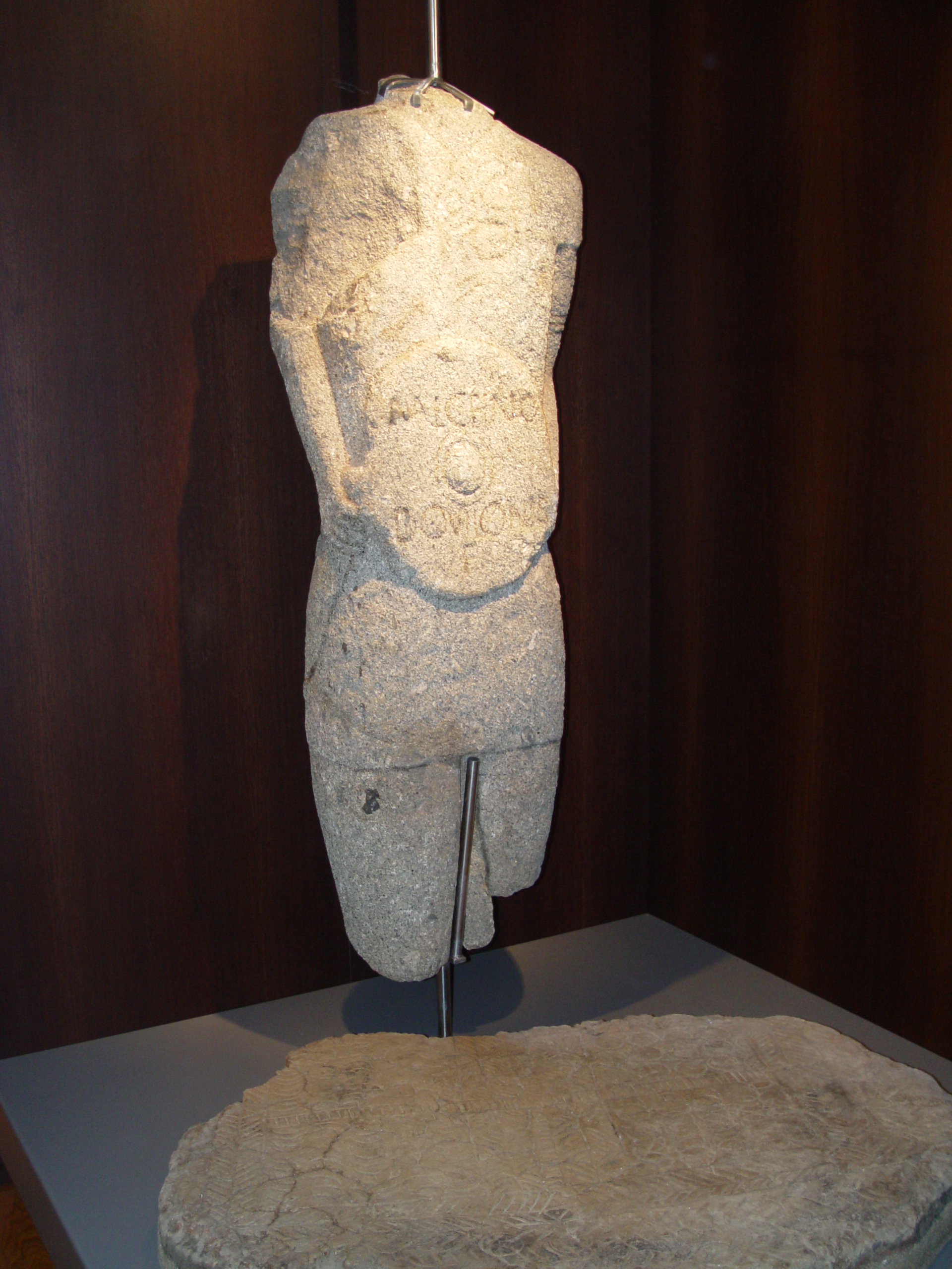 Sculpture in D. Diogo de Sousa Museum, Braga, Portugal